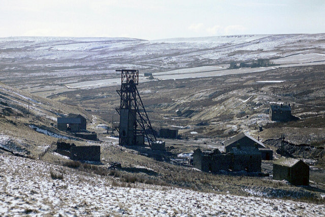 Grove Rake Mine, Rookhope, under snow Some of the mine buildings have been demolished, but these ruins still stand at around 1,500 feet on the bleak moorlands between Allenhead and Rookhope.